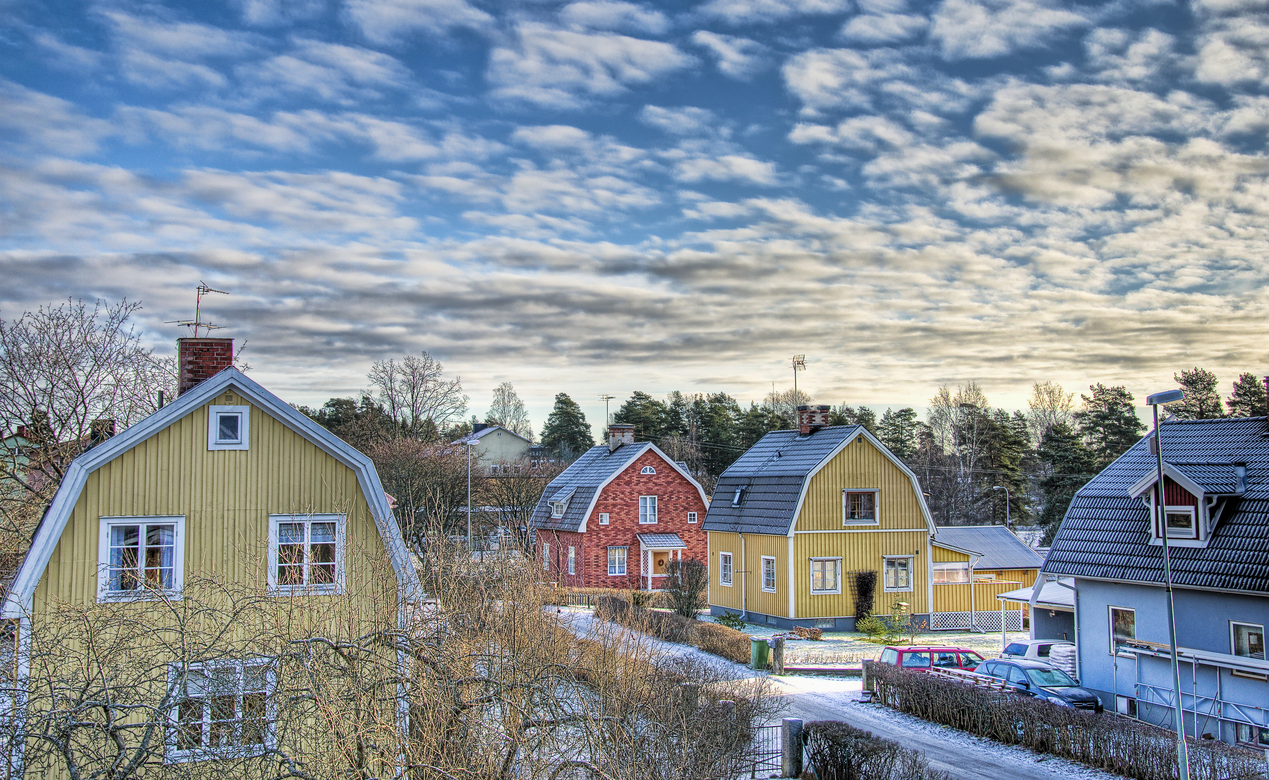 Surahammar, January morning